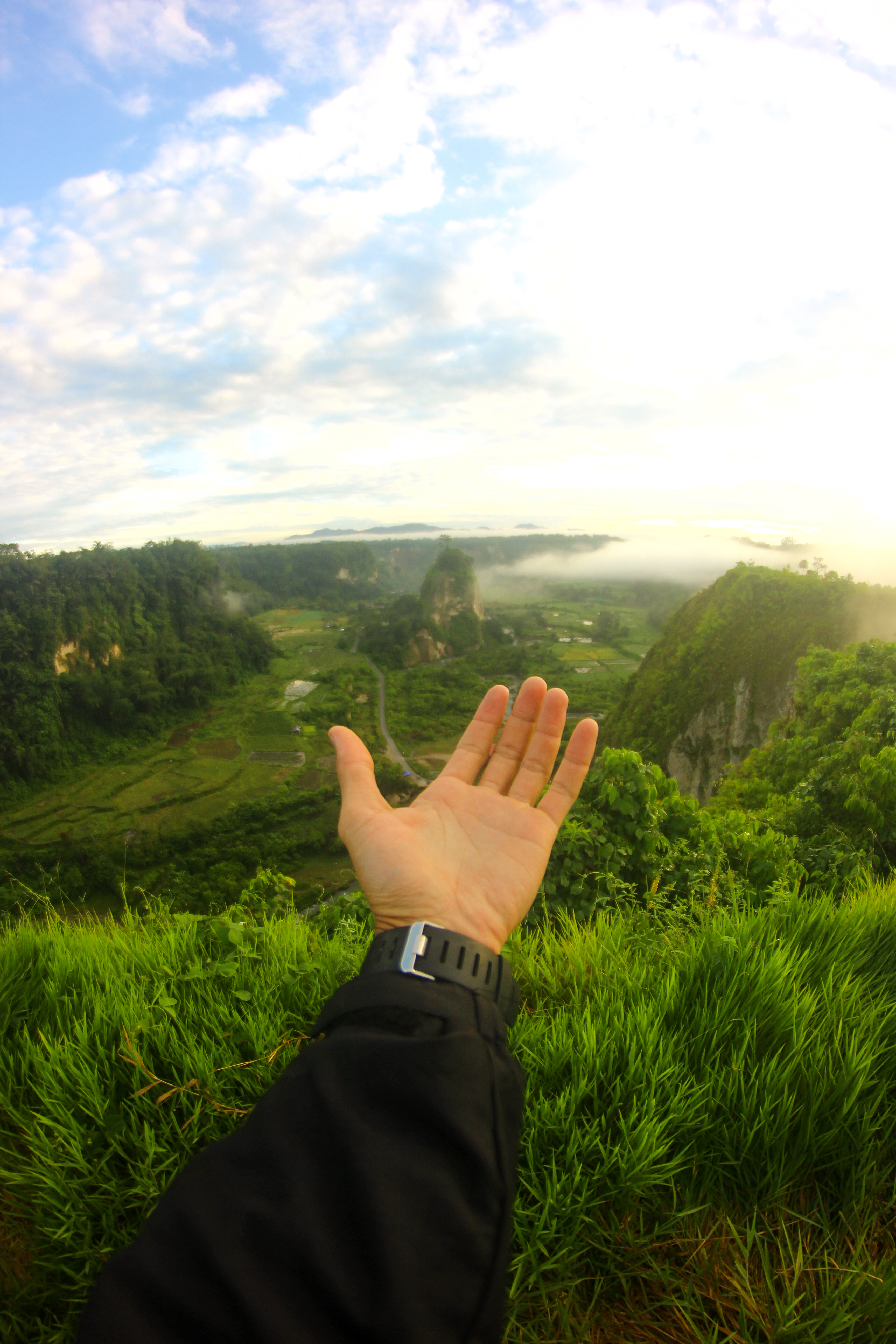 Salah satu spot wisata terbaik di bukittinggi provinsi Sumatera Barat, tabiang takuruang ngarai sianok